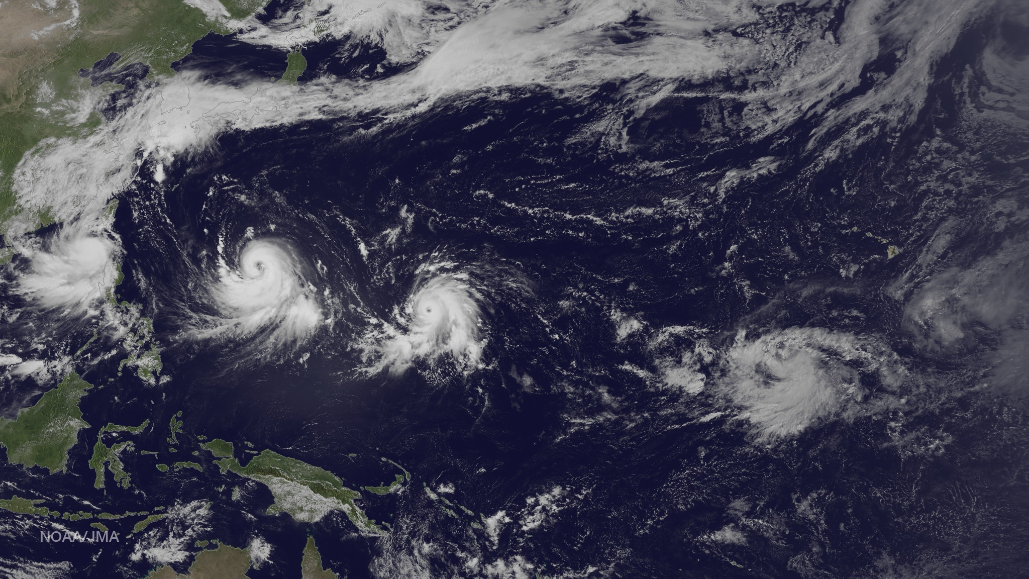 Two typhoons, one tropical storm, one formation alert and one large area of increased convection is making for a busy day in the northern Pacific Ocean. From left to right: Tropical Storm Linfa is in the South China Sea meandering slowly northward with winds holding steady near 55 knots. A turn to the west toward land is expected during July 8. Typhoon Chan-Hom has winds near 100 knots and strengthening, heading west-northwest toward the East China Sea, passing south of Okinawa around July 9. Typhoon Nangka is east of Guam heading west-northwest with winds intensifying near 140 knots in a couple of days. The large area of convection southwest of Hawaii is not expected at this time to develop into a tropical system, despite its satellite presentation. To the far east of this image can be seen the Hawaiian Islands; to the southeast of the Islands an area of convection is consolidating, and the Joint Typhoon Warning Center states, "Formation of a significant tropical cyclone is possible...within the next 12 to 24 hours." This image was taken by the JMA MTSAT-2 satellite at 0230Z on July 7, 2015.